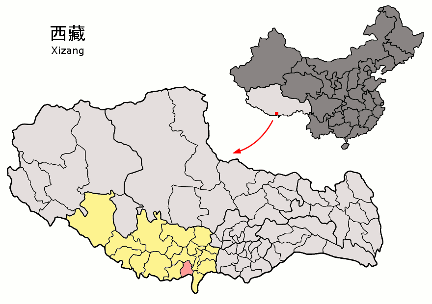 Location of Gamba County (pink) and Xigazê Prefecture (yellow) within Tibet (Xizang) autonomous region of China